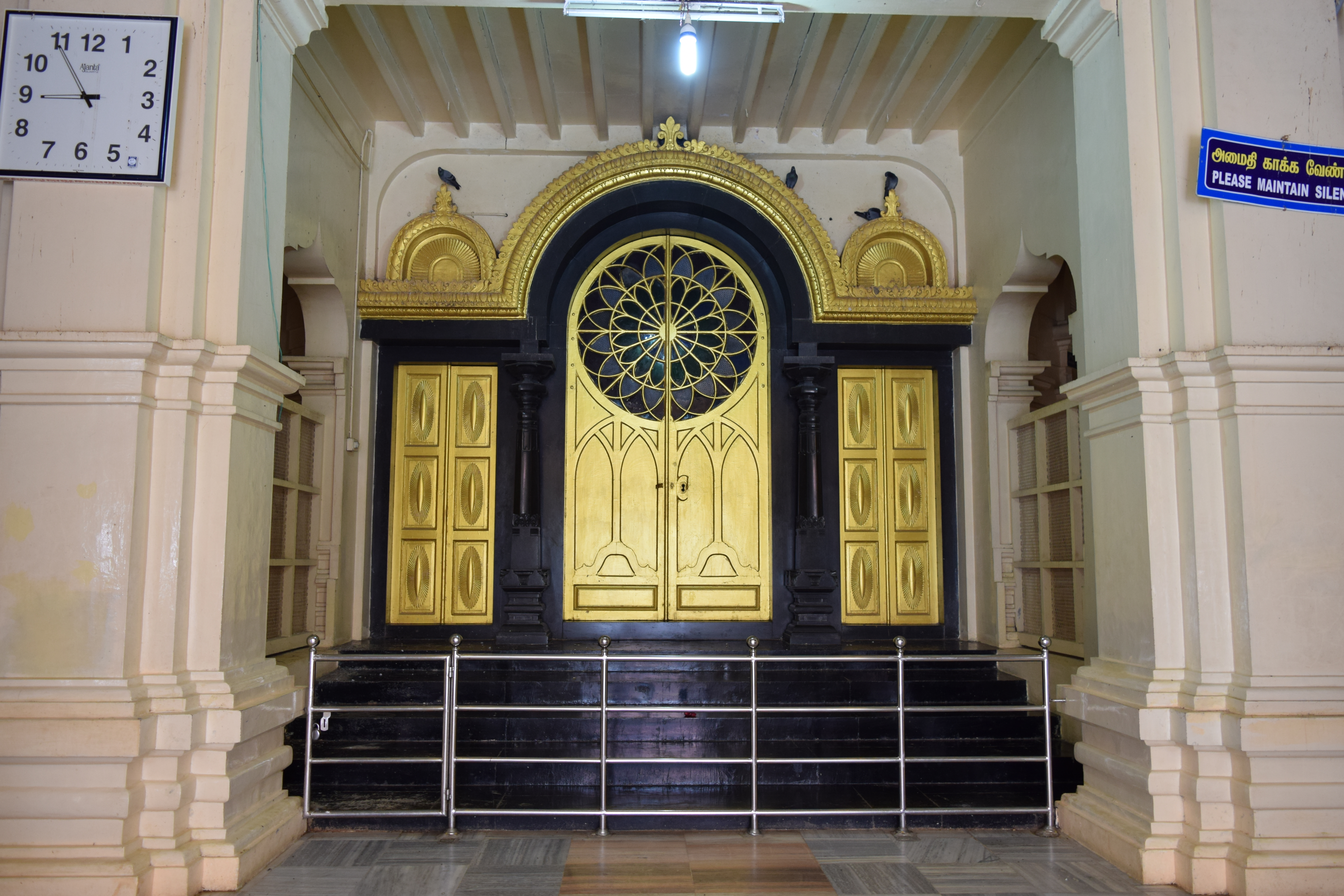 the main gate of sathya gnana tharuma sabai, vadalur, established by vallalar ramalinga adigal